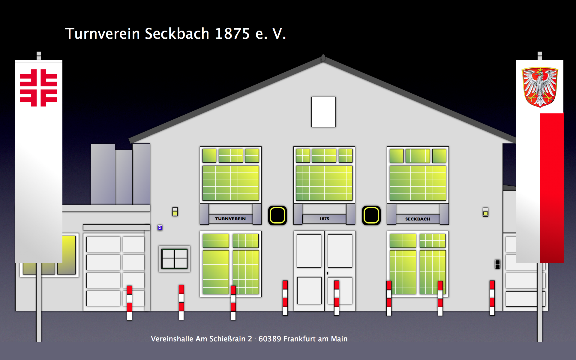 Gym of Turnverein Seckbach 1875 in Frankfurt, Hesse, Germany